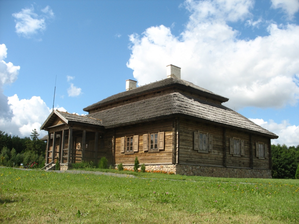 House of Kasciuška (Mieračoŭščyna), Belarus. Restauration